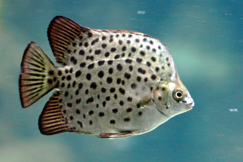 Scatophagus argus